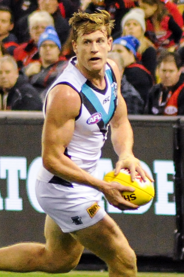 Tom Jonas during the AFL round twelve match between Essendon and Port Adelaide on 10 June 2017 at Etihad Stadium in Melbourne, Victoria.